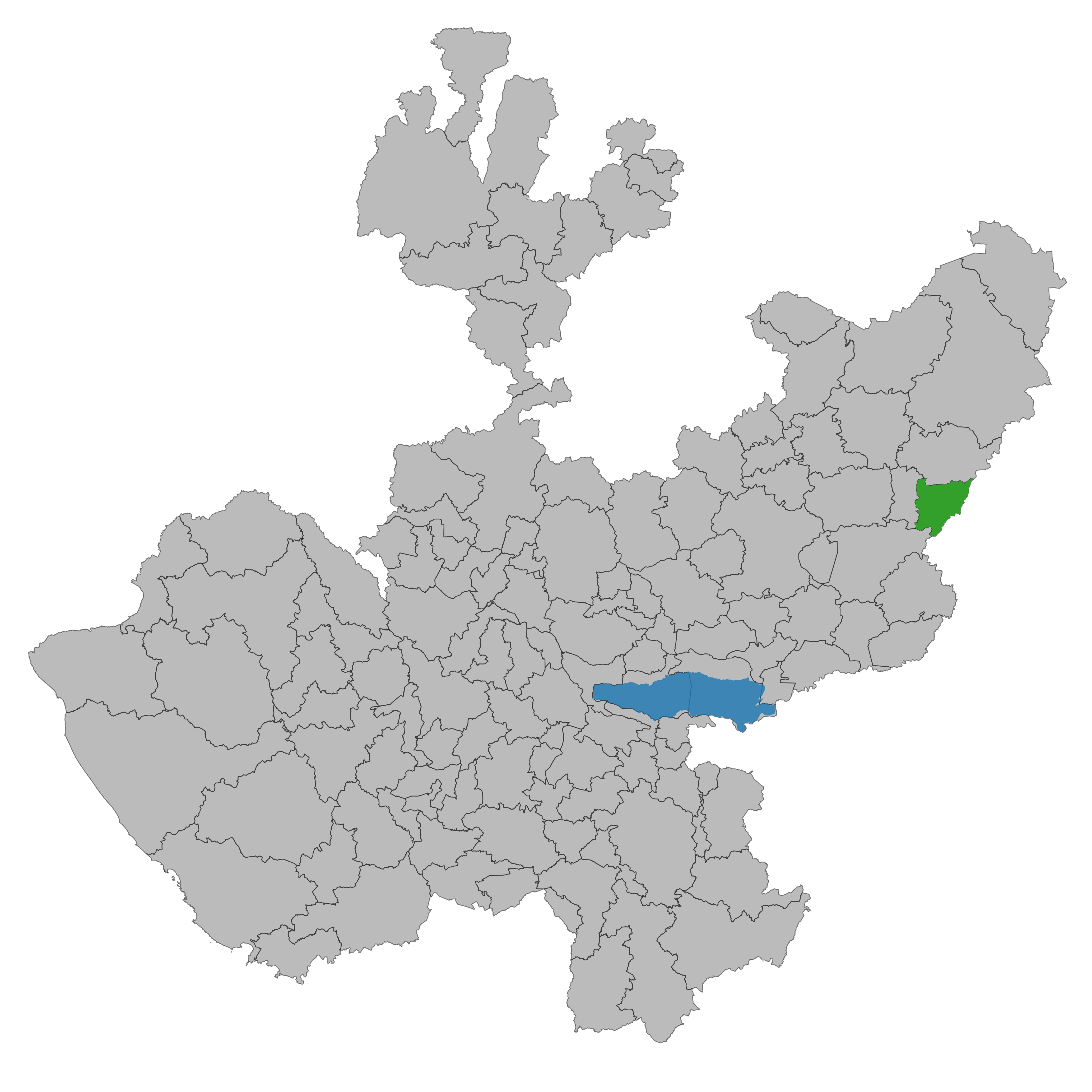 Municipality of Jalisco. Prepared with the software QGIS version 2.8.2 Wien & with information of SCINCE 2010 version 05/2013